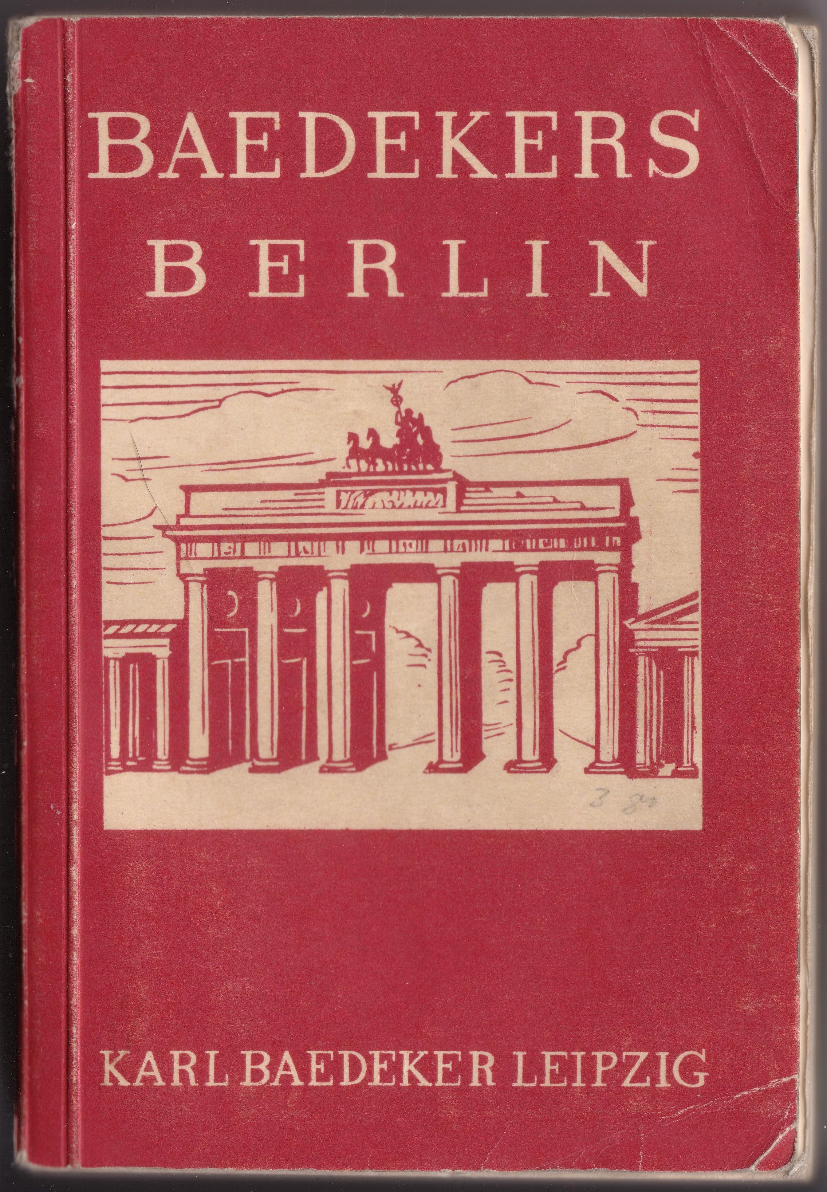 Baedeker Berlin 1936